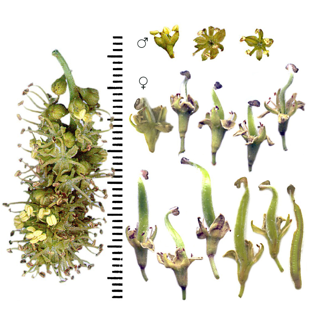 Gleditsia inflorescence and flowers